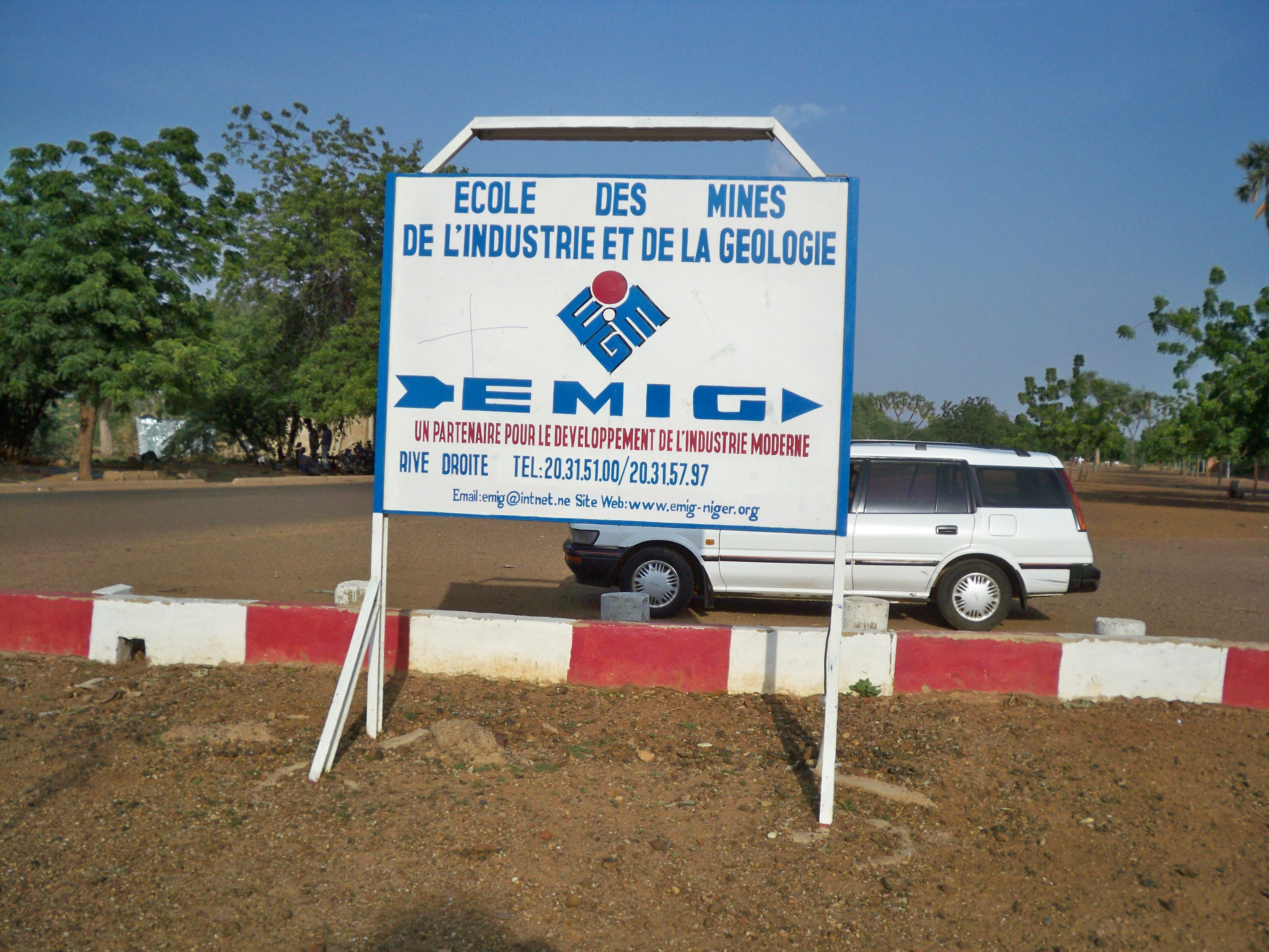 Signboard at EMIG (Higher Institute of Mining, Industry and Geology in Niamey, Niger) Main Entrance